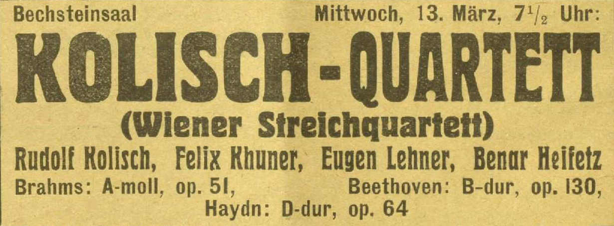 Concert announcement Kolisch-Quartett (Bechsteinsaal, Berlin)